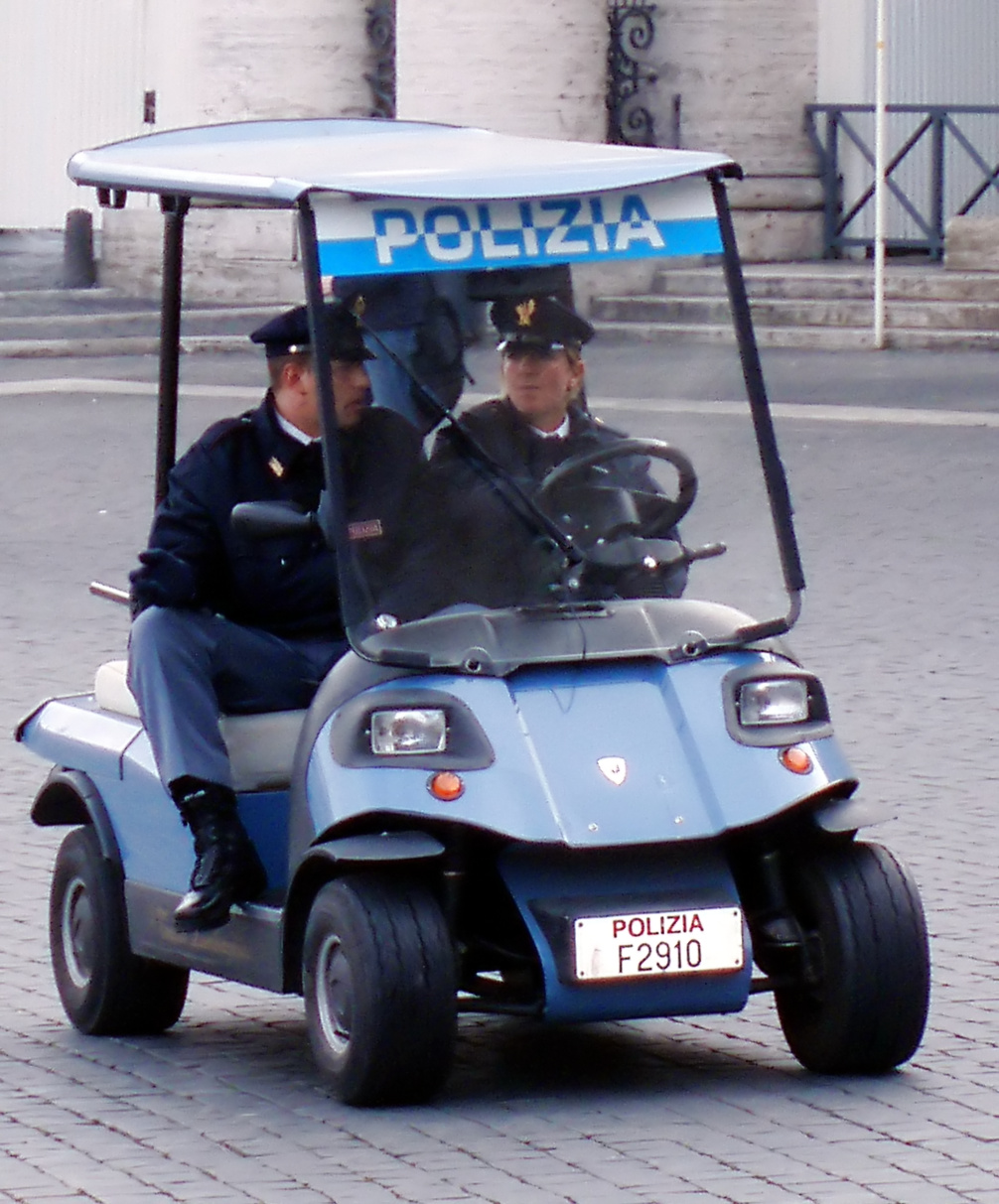 Tonino Lamborghini Utility Cart of the Inspectorate of Public Safety "Vatican" (Italian State Police) operating on Saint Peter's Square of Vatican City